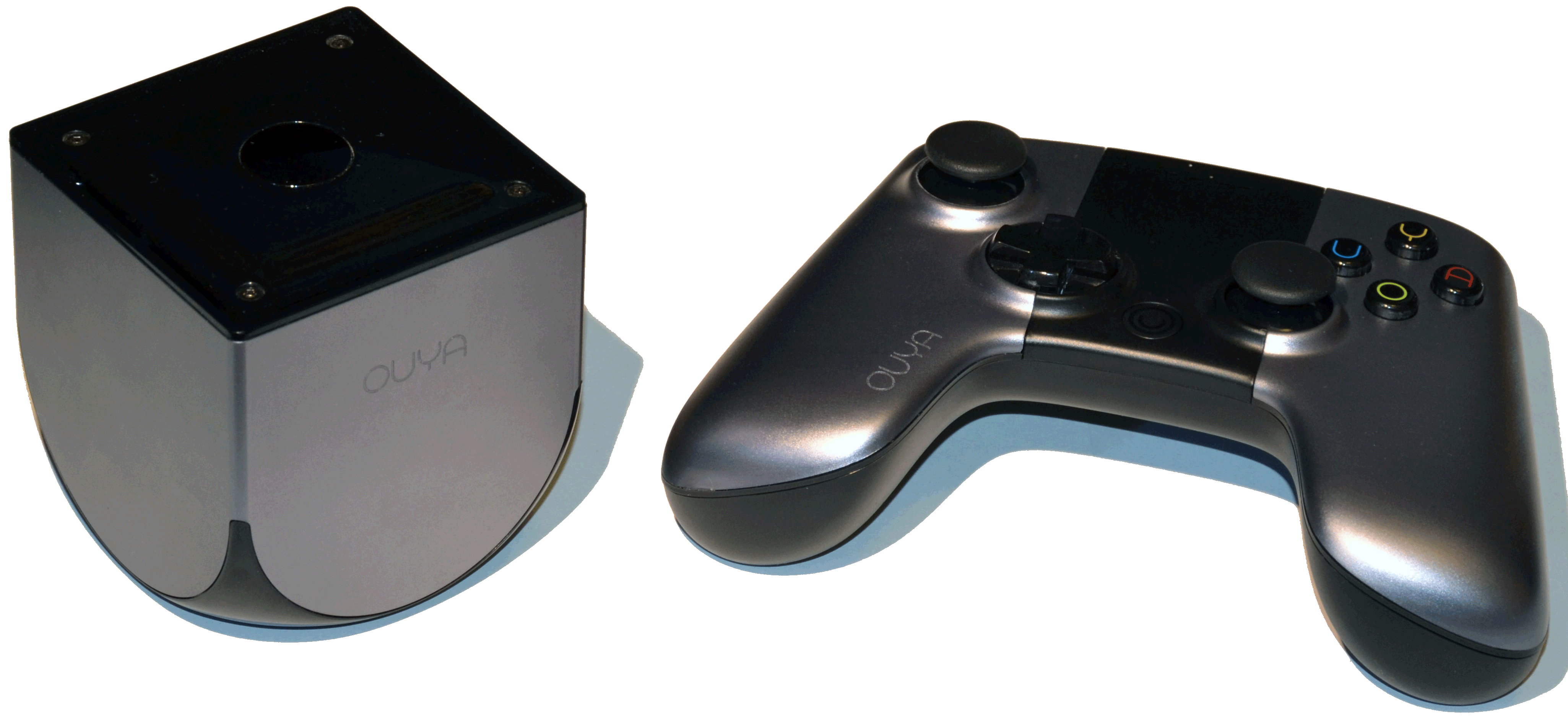 PNG version of File:Ouya video game microconsole (9172860385).jpg with transparent background